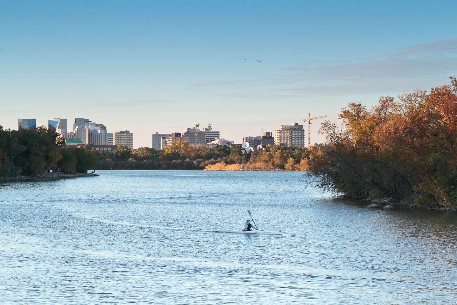 Skyline of Regina, Saskatchewan, as seen from one of the many observation decks along the shore of Wascana Park.